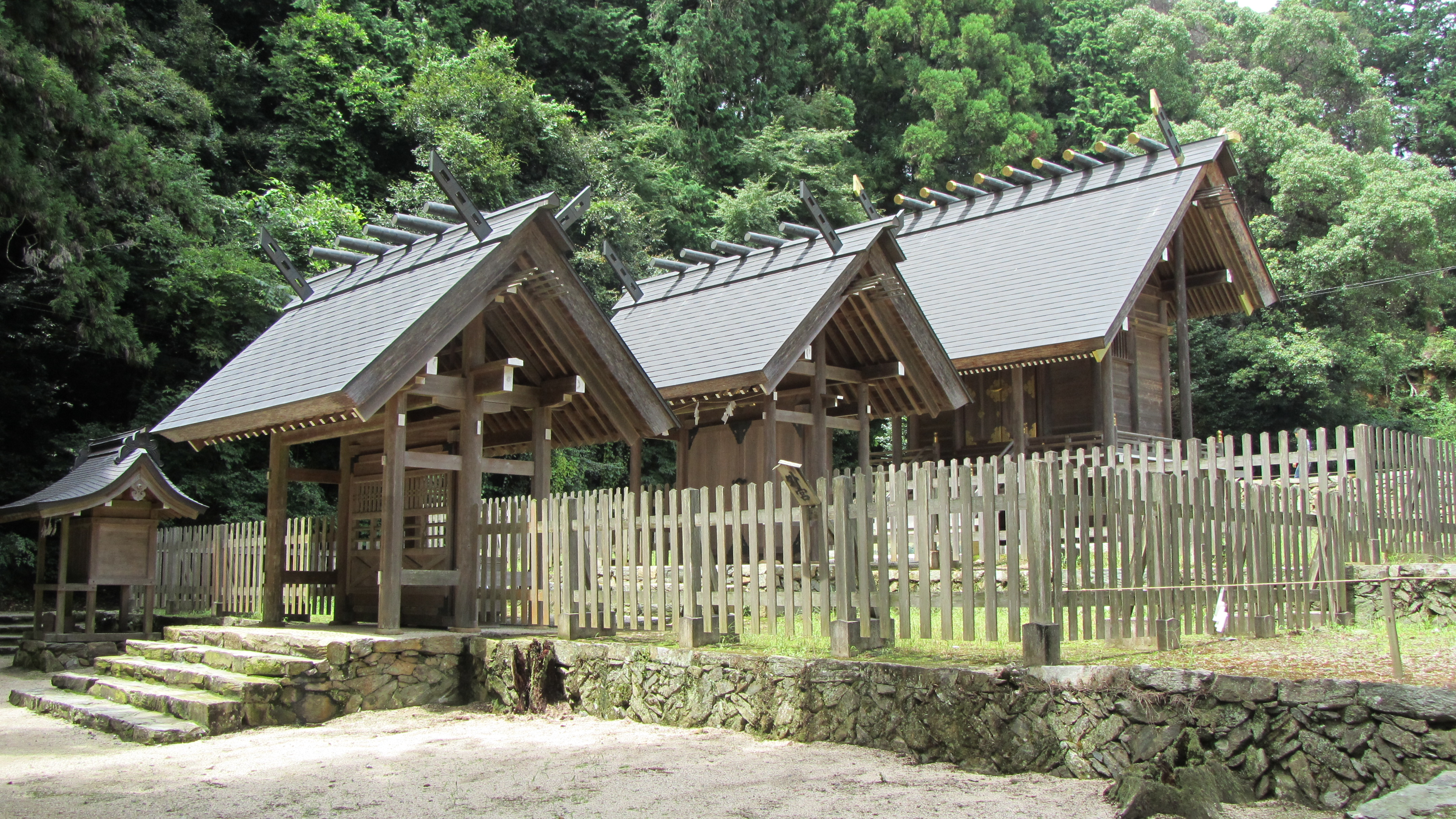 Yamaguchi Daijingu's inner shrine, built as a smaller and simpler version of the Ise Shrines.